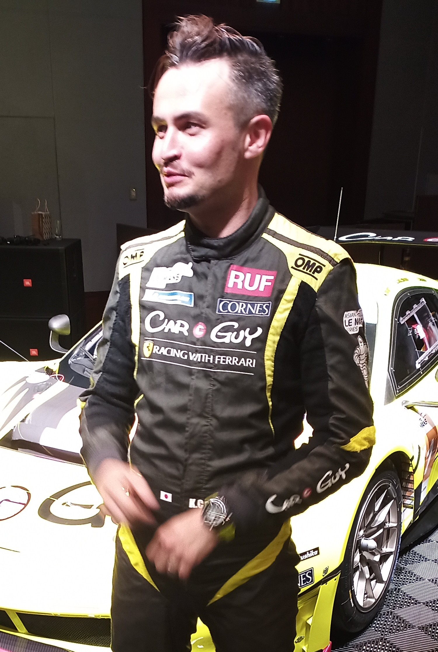 portrait of CAR GUY Racing driver Kei Cozzolino